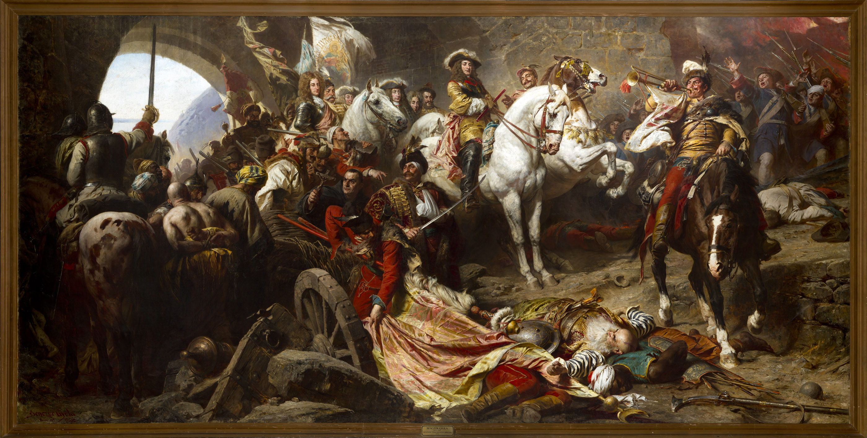 Reoccupation of Buda castel en 1686. Benczúr Gyula (1896), oil on canvas